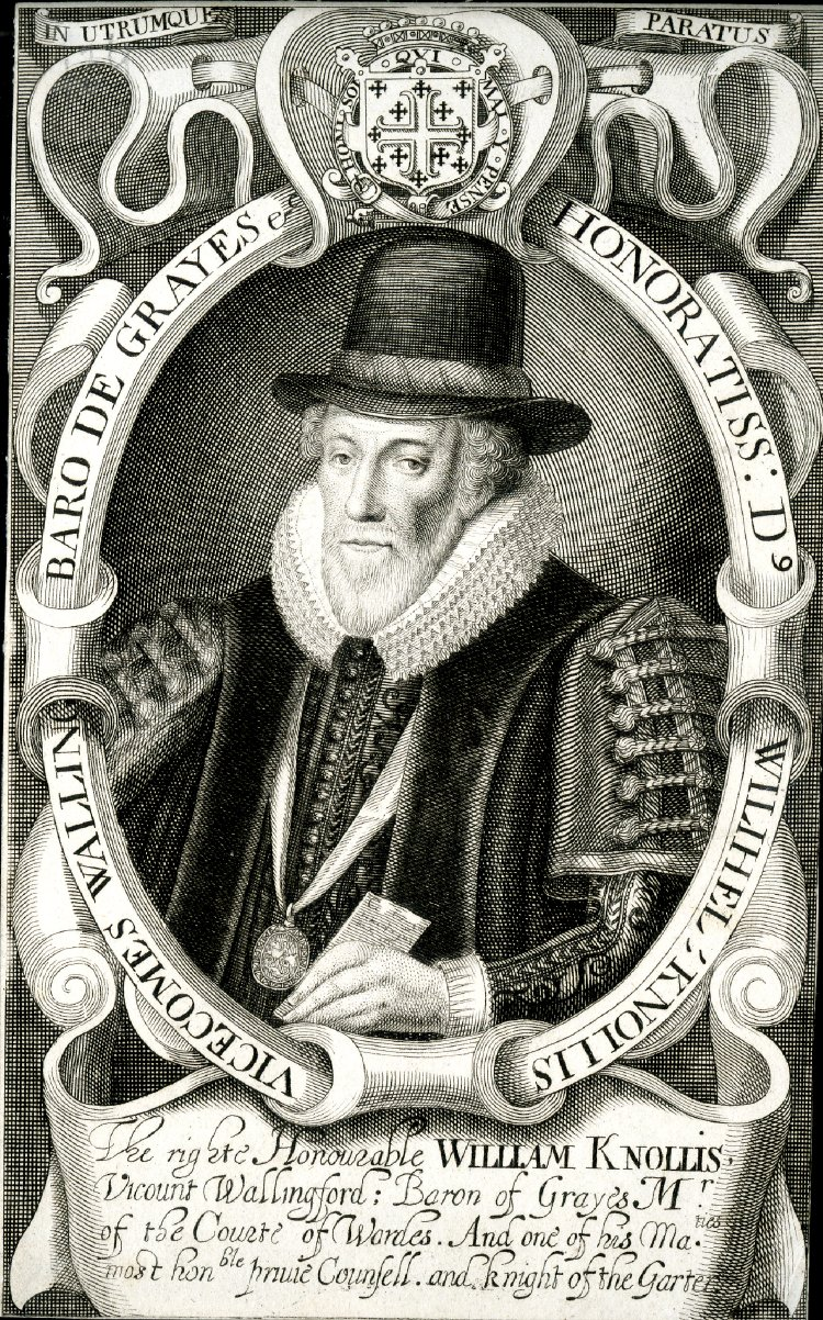 "The right Honourable William Knollis Vicount Wallingford," engraving, portrait of William Knollys, 1st Earl of Banbury, by the British engraver Simon van de Passe. 175 mm x 106 mm. Courtesy of the British Museum, London.